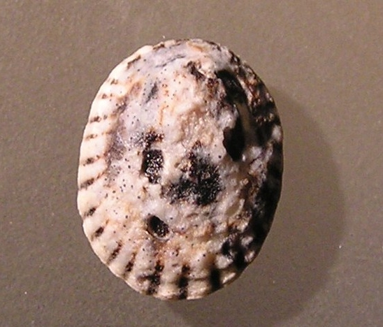 Lottia mixta L. A. Reeve, 1855, a limpet from the family Lottiidae; New Zealand